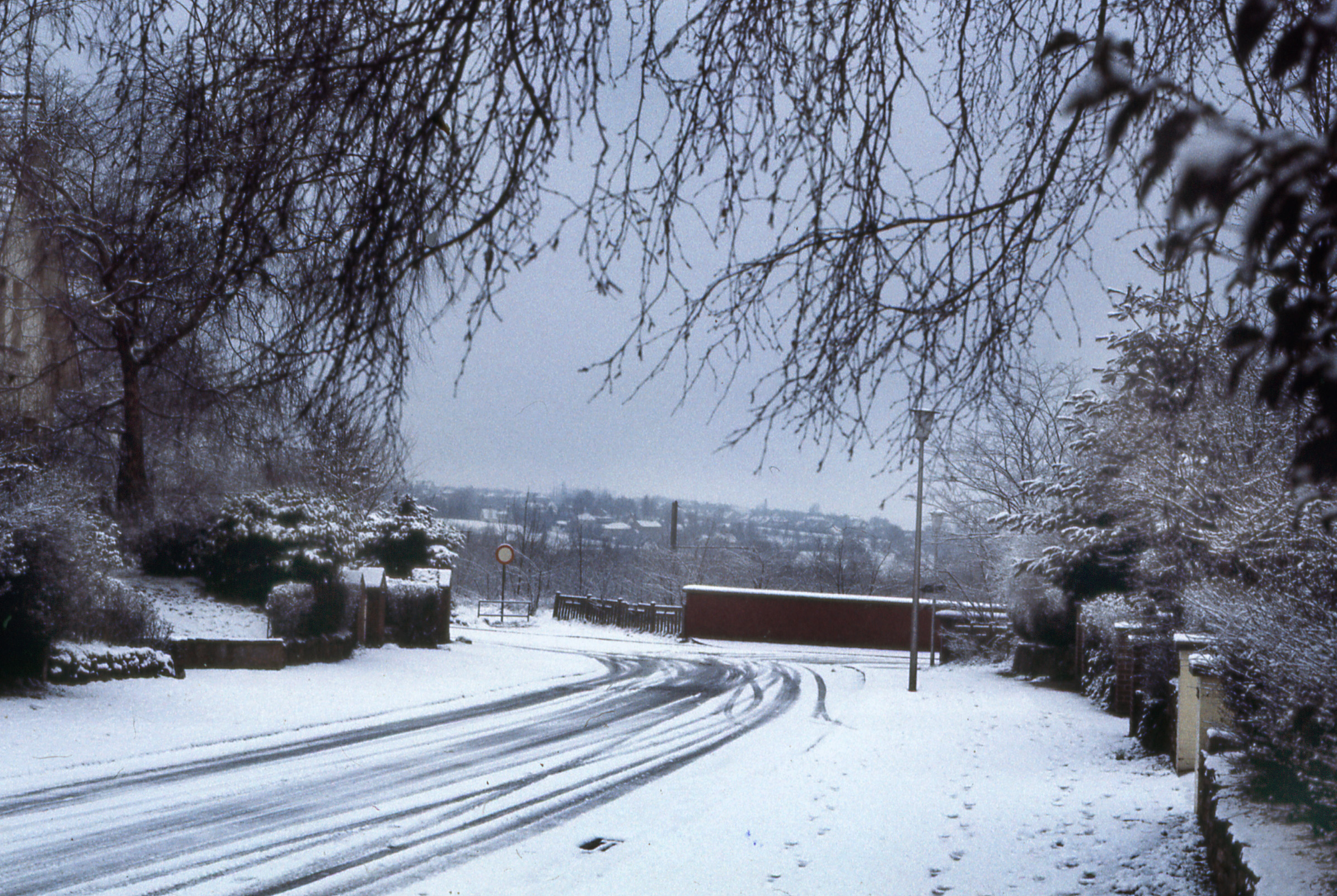 A very cold winter in Brussels,Uccle